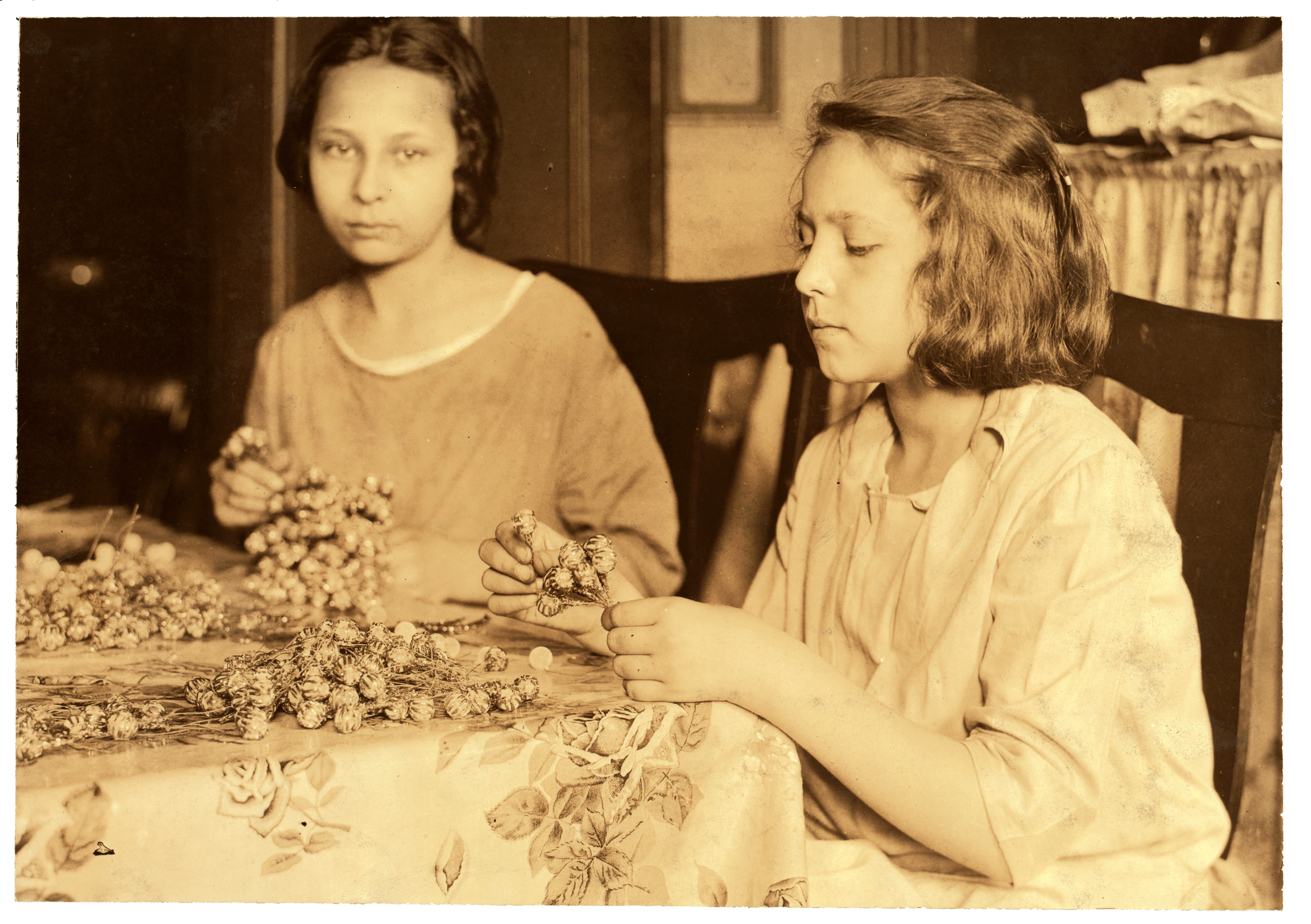 Homework pictures taken in connection with investigation (see report TE-NY-39). Location: New York, New York. Photograph by Lewis Wickes Hine, March 1924.